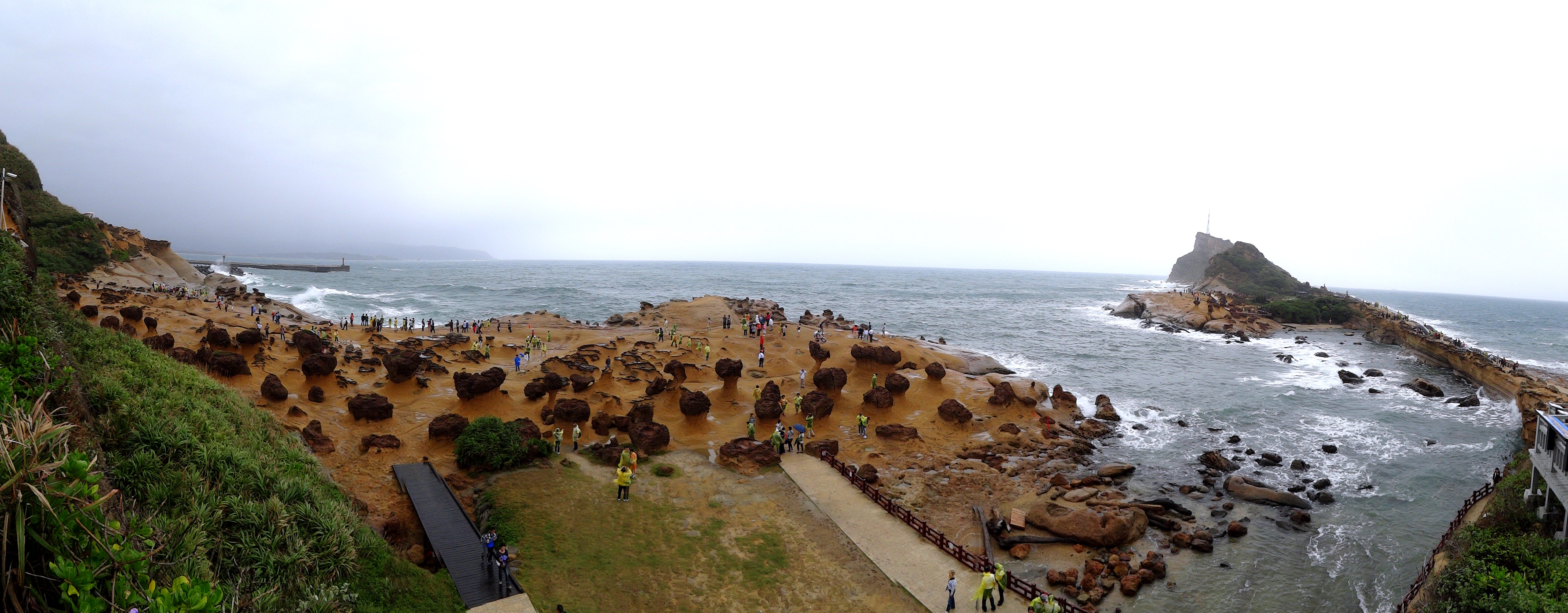 Panoramic view from Yehliu Geopark in Taiwan